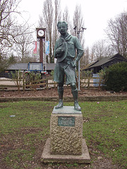 The original of this statue, made in 1937 by R. Tait McKenzie, is outside the Marks Center in Philadelphia, PA, USA, headquarters of the Cradle of Liberty Council, and another copy is at the headquarters of the Boy Scouts of America(BSA) in Irving, Texas. This copy at Gilwell Park was a gift by the BSA to the The Scout Association (then the Boy Scout Association) of Britain in 1966.